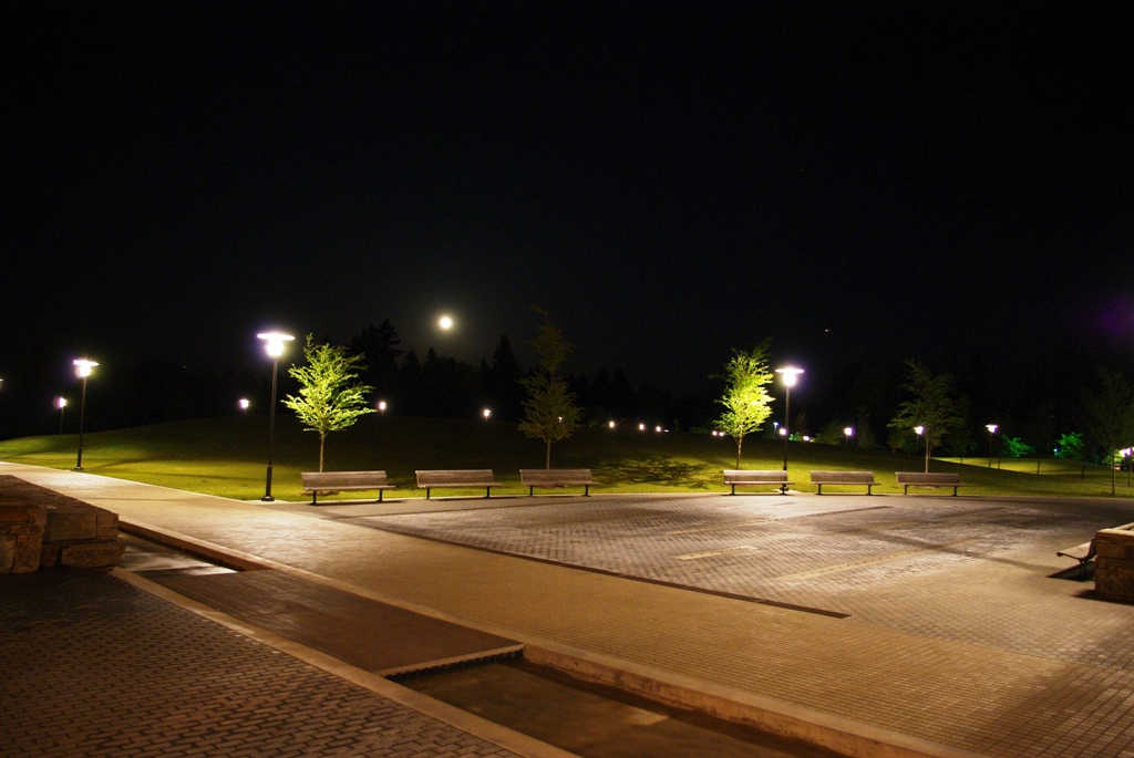 Murase Plaza at night at Memorial Park in Wilsonville, Oregon